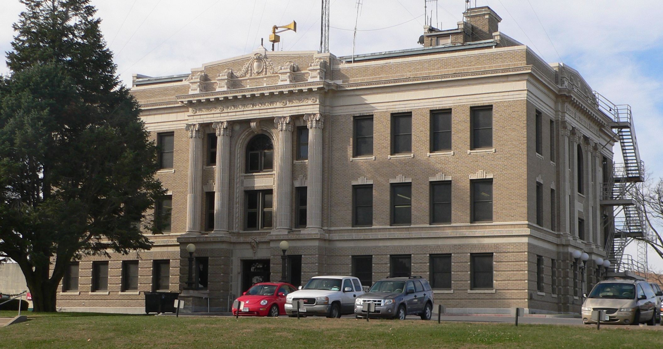 Richardson County Courthouse in Falls City, Nebraska: seen from the northeast.